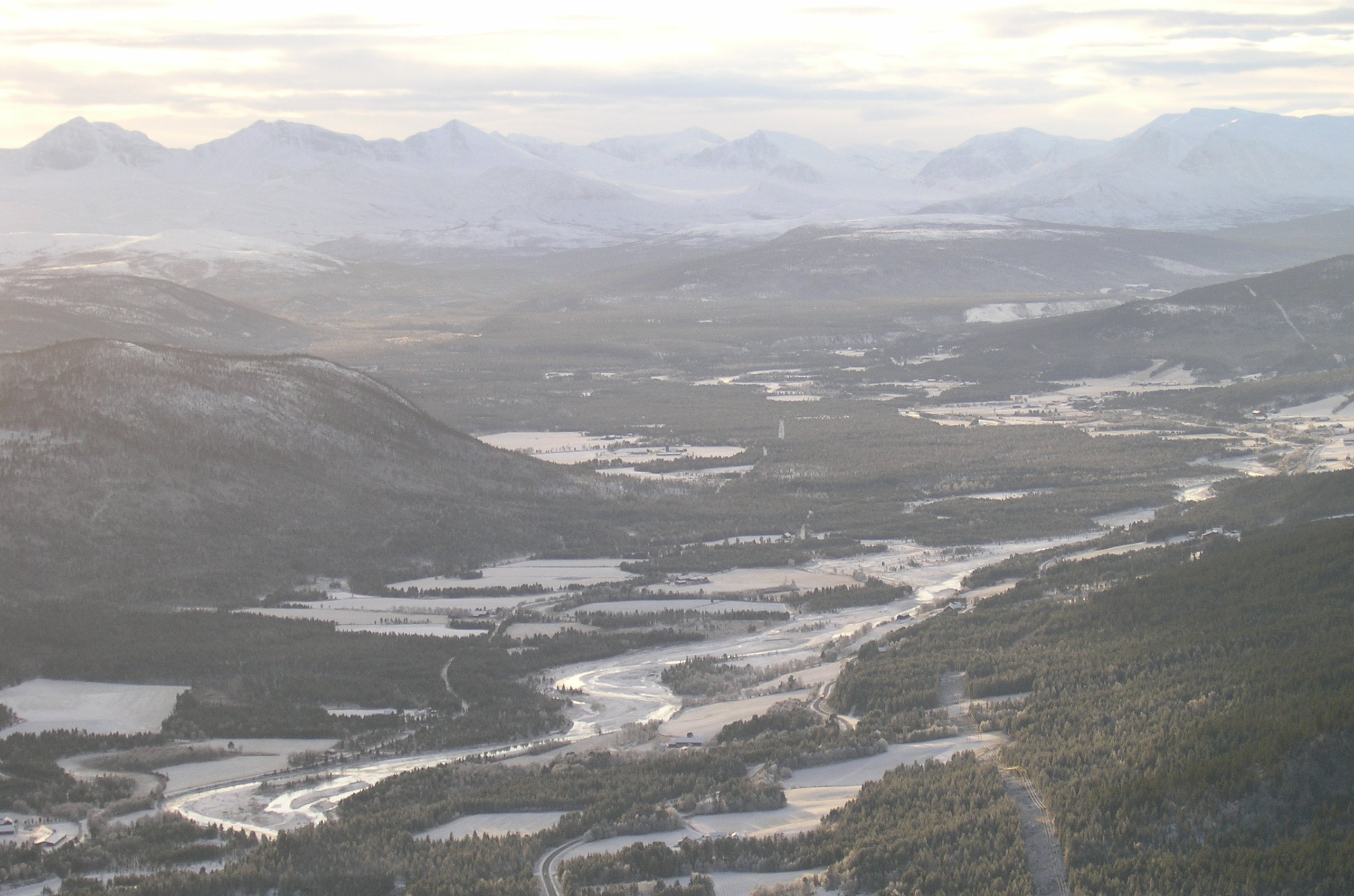 Grimsmoen i Folldal valley with Rondane as backdrop